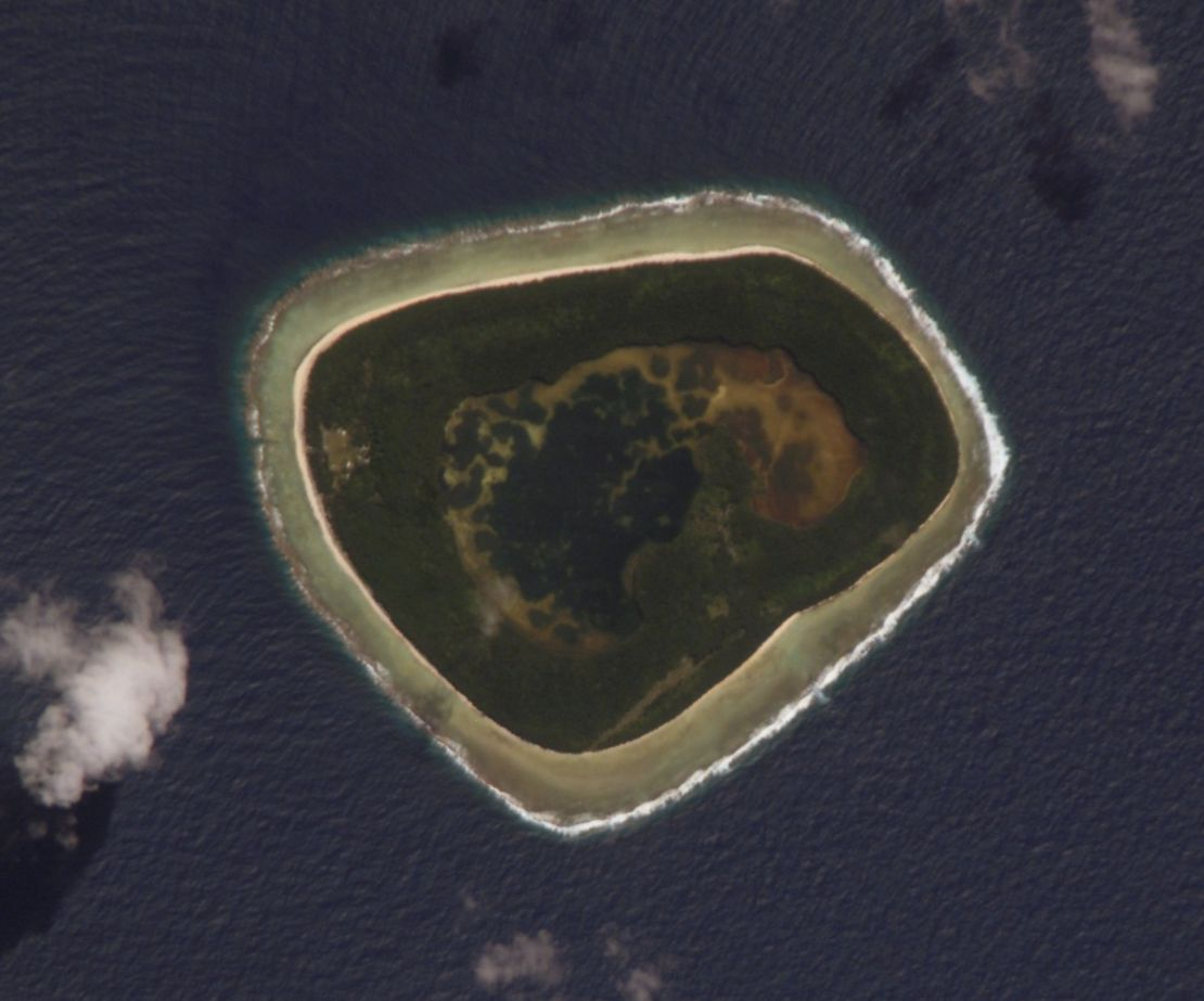 Swains Atoll in the Tokelau archipelago, politically part of the American Samoa